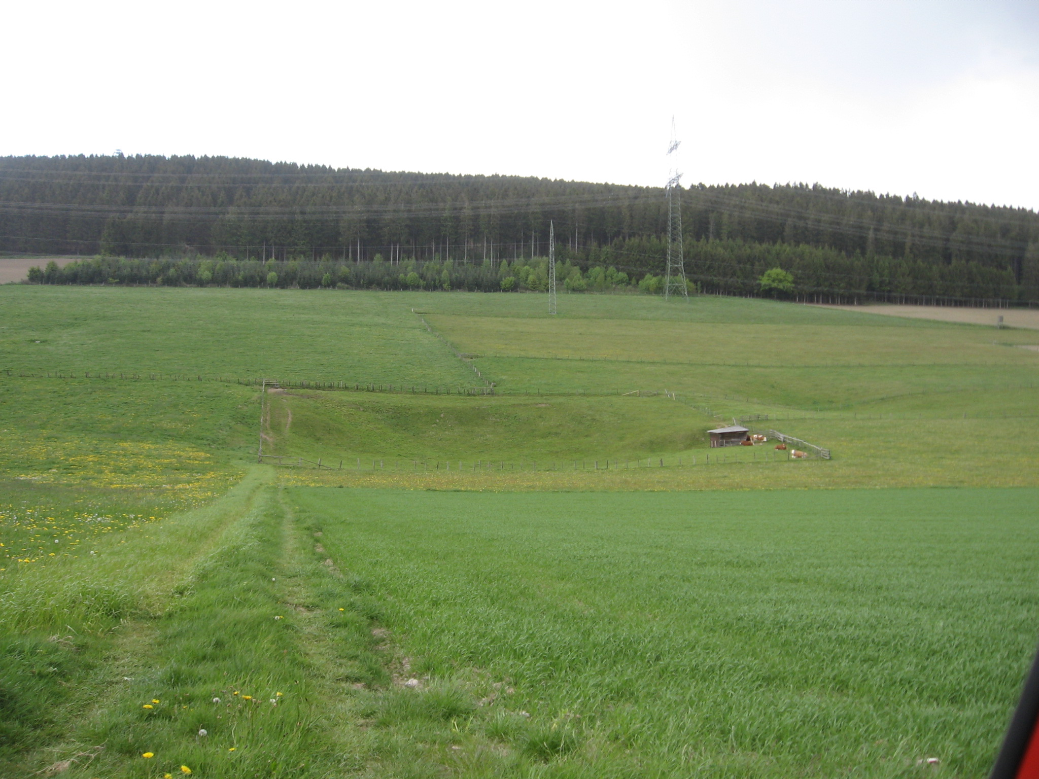 Das Naturdenkmal Doline Wintertal befindet sich in der Bildmitte und ist umgeben vom Landschaftsschutzgebiet Wintertal / Escherfeld.